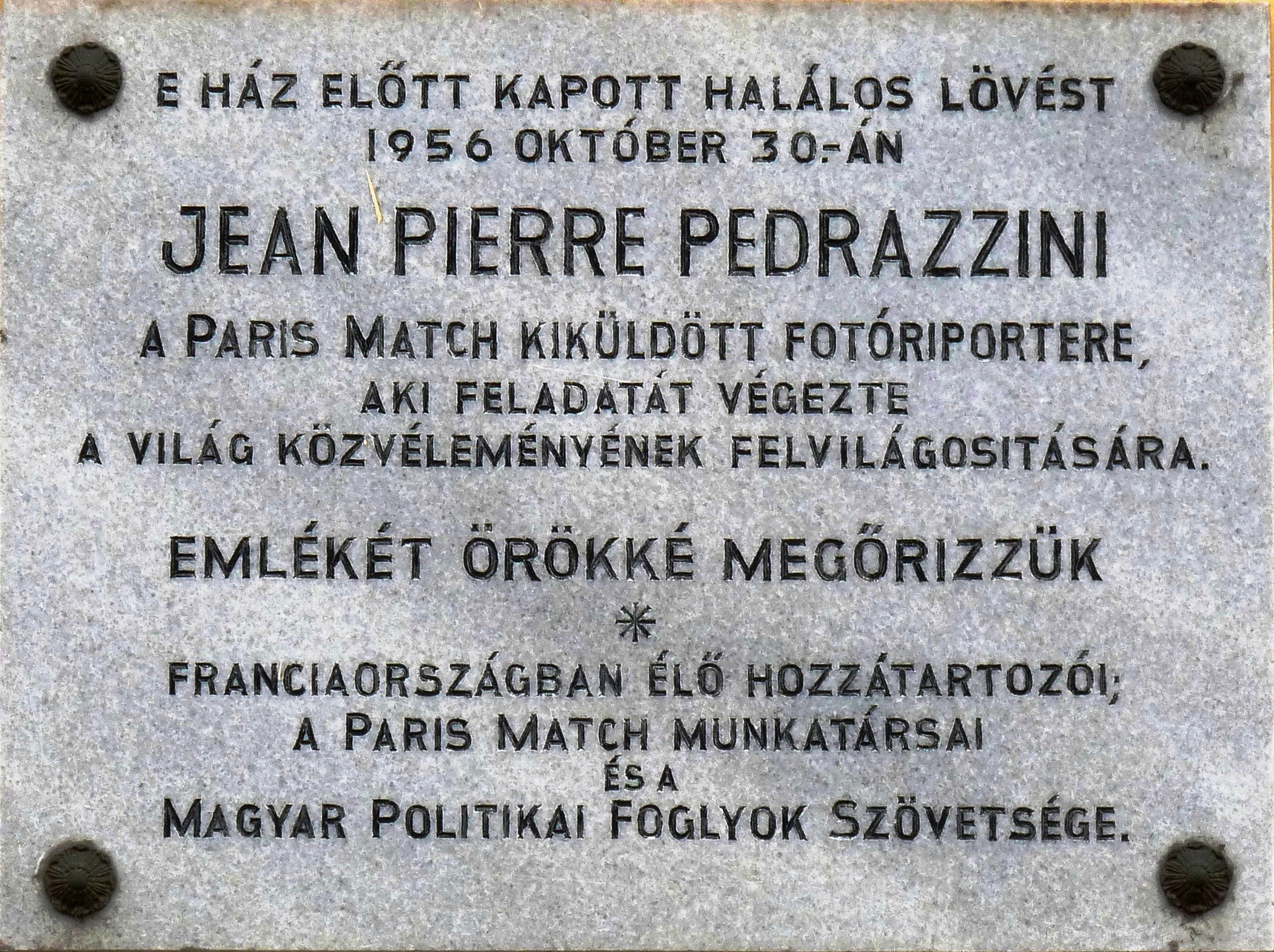 Commemorative plaque to Mr. Jean-Pierre Pedrazzini (1927-1956) at the location where he was wounded to death on 30th October 1956. (Budapest, District VIII, Square Köztársaság Nr 25).